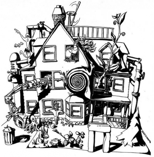 Logo art for pika, an MIT (Massachusetts Institute of Technology) ILG (Independent Living Group) Student housing cooperative located in Cambridge, Massachusetts, United States. A stylized, humorous line art drawing of the house, with a prominent swirl vortex near the center. Non-vector art version.